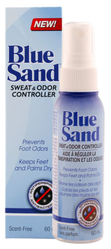 Methenamine based antiperspirant for treatment of excessive sweating